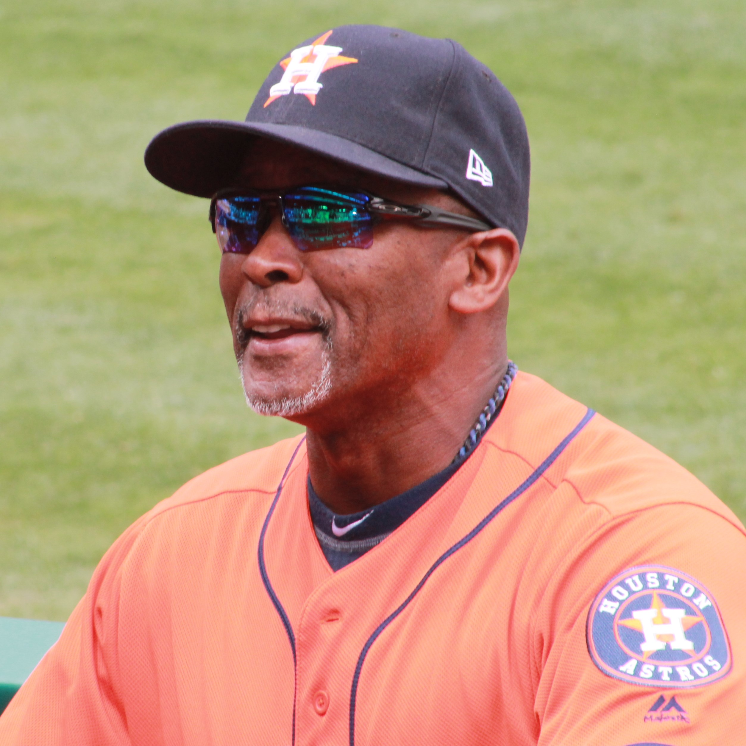 Professional baseball coach Gary Pettis during a May 2017 game in Anaheim.